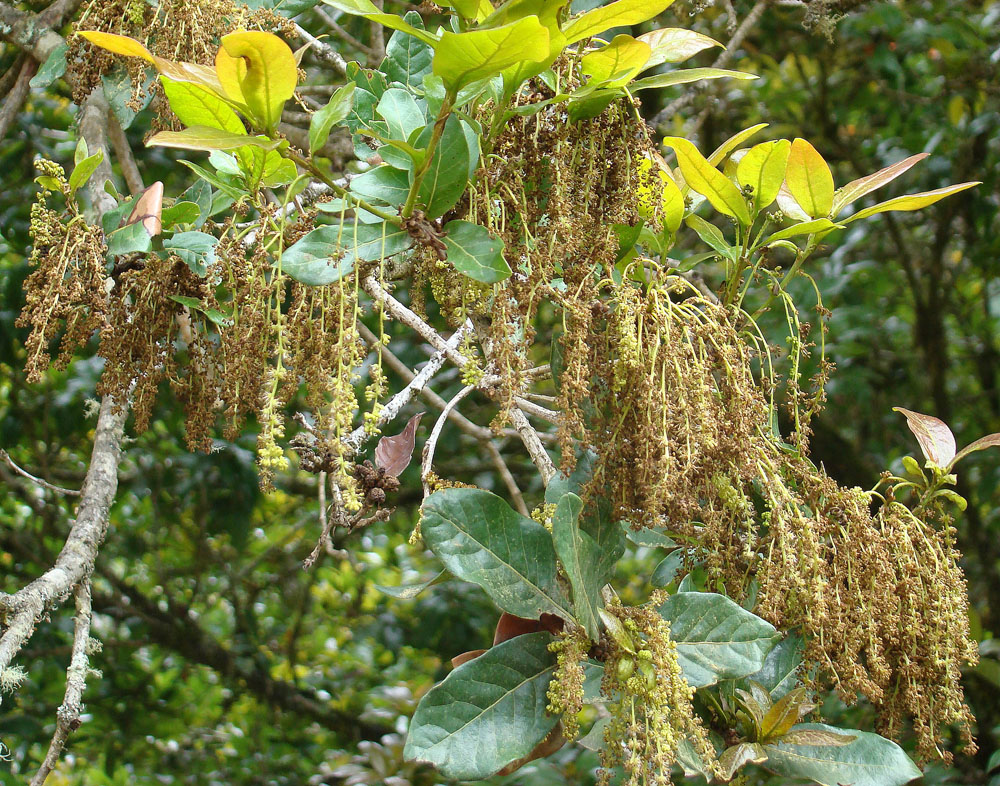 a "tassel tree" in the Dota area Licania arborea Chrysobalanaceae mainly central america Alcornoque and falso roble, both confuse this with oak.